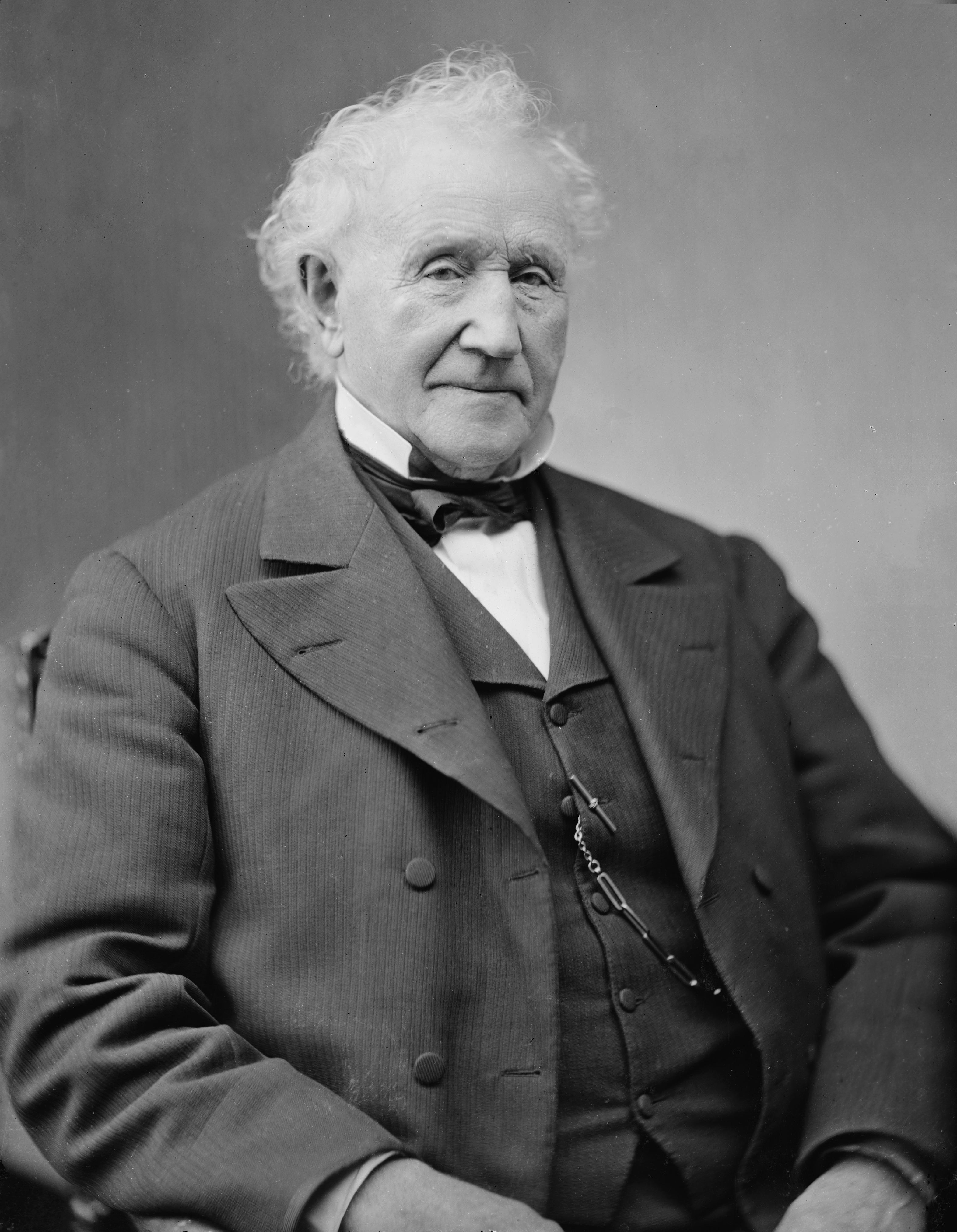 George Washington Patterson. Library of Congress description: "Patterson, Hon. George of N.Y.".